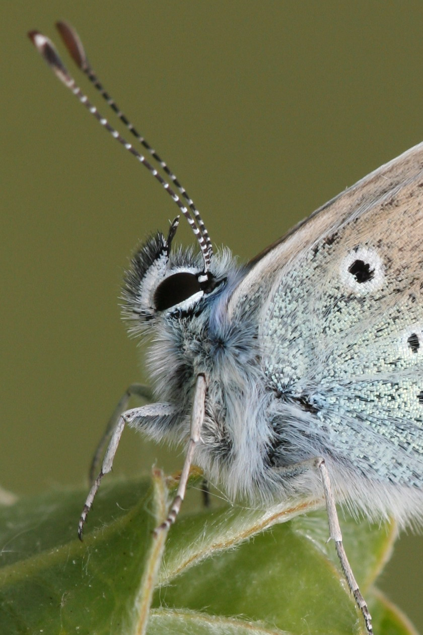 Polyommatus icarus